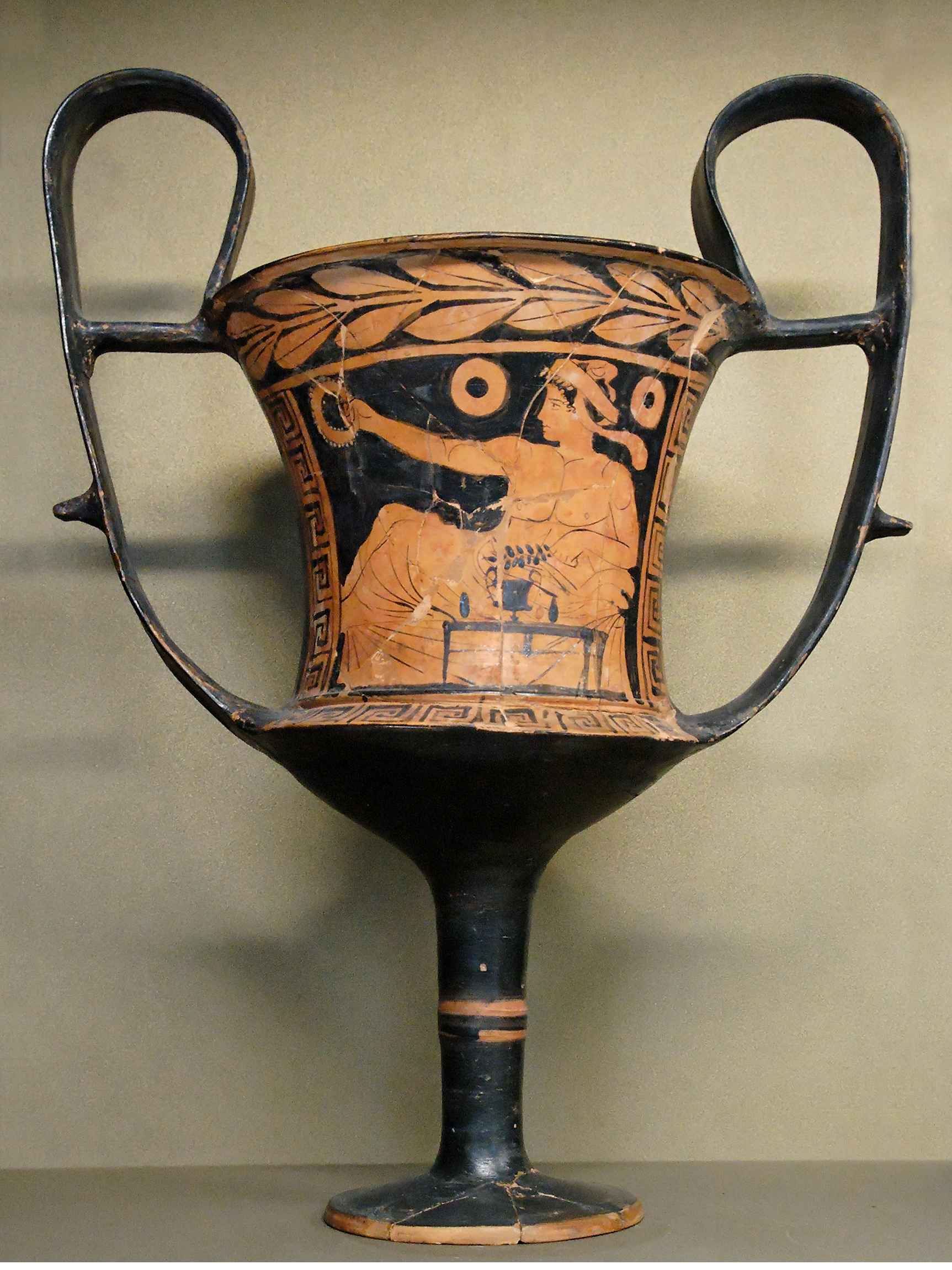 Symposiast. Side B of an Boeotian red-figure kantharos, ca. 450-425 BC. From Boeotia.